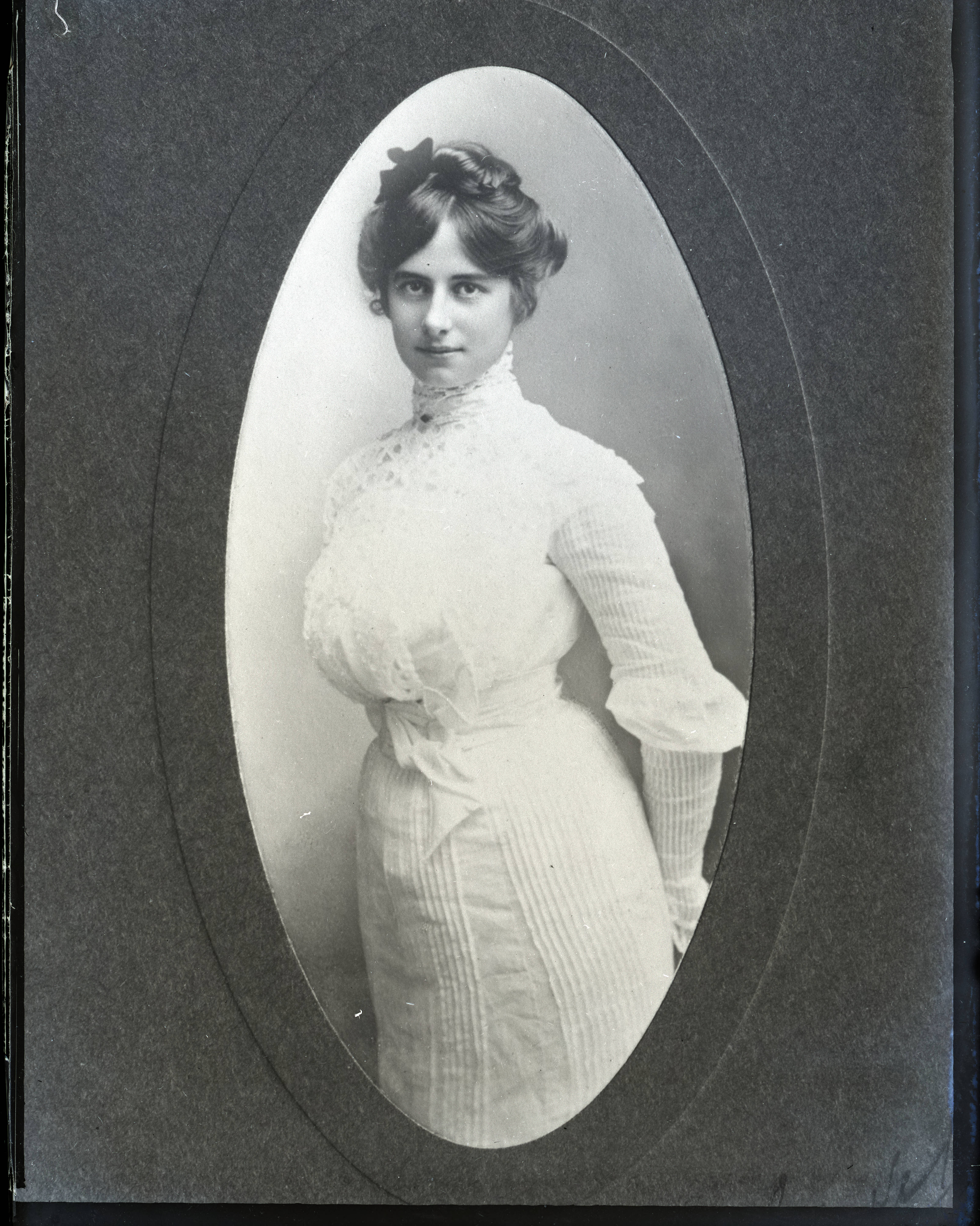 Culver, Essae Martha, 1882-1973 Description An oval mounted photograph of Pomona College student Essae Martha Culver in a high-collared white dress. [Culver went on to become the first State Librarian of Louisiana in 1925.] Notes Photograph of a photograph. Portrait used in the 1904 Metate, pg. 143. Publisher Honnold Mudd Library. Special Collections Language eng Source Glass plate negative, 3.25 x 4.25 inches: paper sleeve title, "Miss Culver"; The Boynton Collection of Glass Negatives Accession Number bce00115 Collection Boynton Collection of Early Claremont